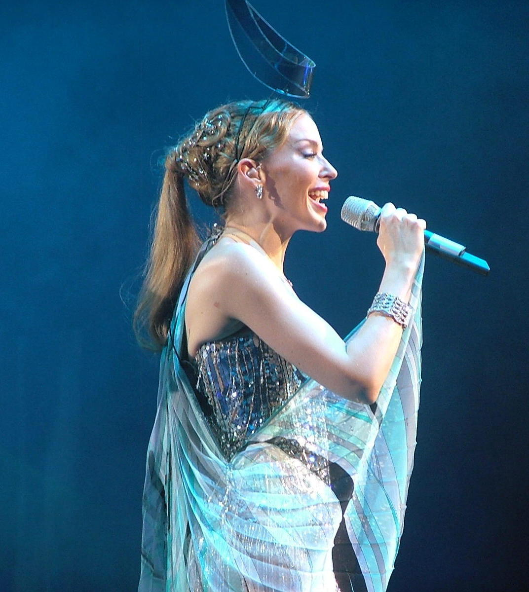 Kylie Minogue live in Paris - Can't get you out of my head - April 20th 2005